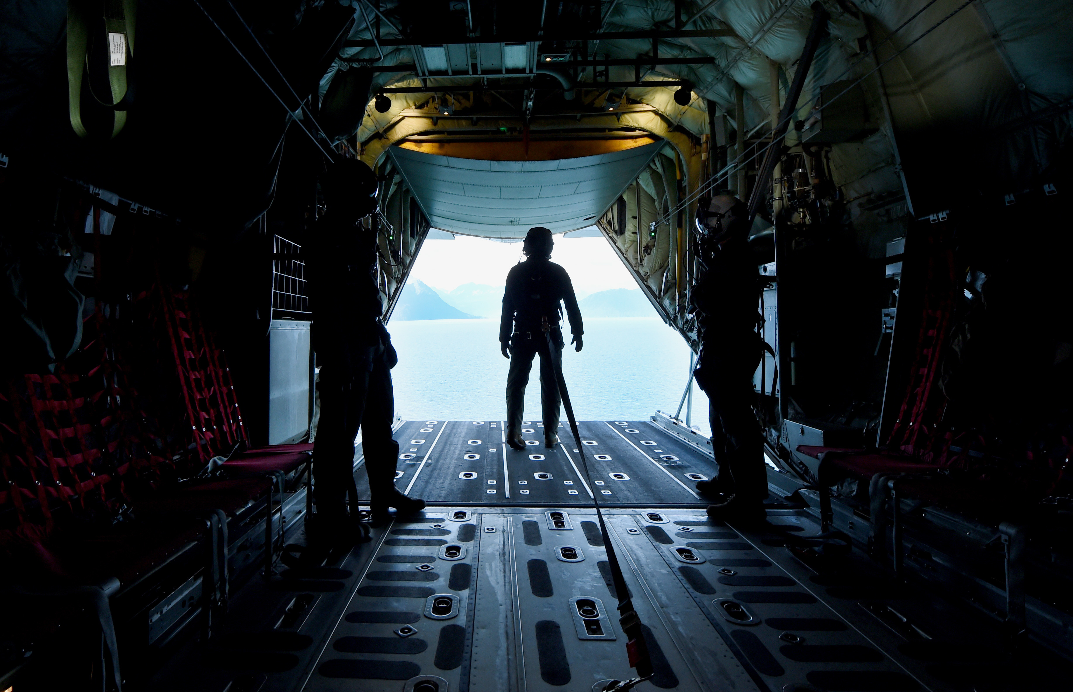 Royal Australian Air Force Flight Sgt. Matthew Long (center) assigned to No. 285 Squadron, simulates a paratrooper jumping off the ramp while RAAF sergeants Adam Roberts and Tiffany Leeson, both assigned to No. 37 Squadron, watch on during Red Flag-Alaska 15-3. Long is one of the members assigned to No. 285 responsible for training RAAFs maintenance and aircrew on the C-130 Hercules while participating in Red Flag-Alaska.